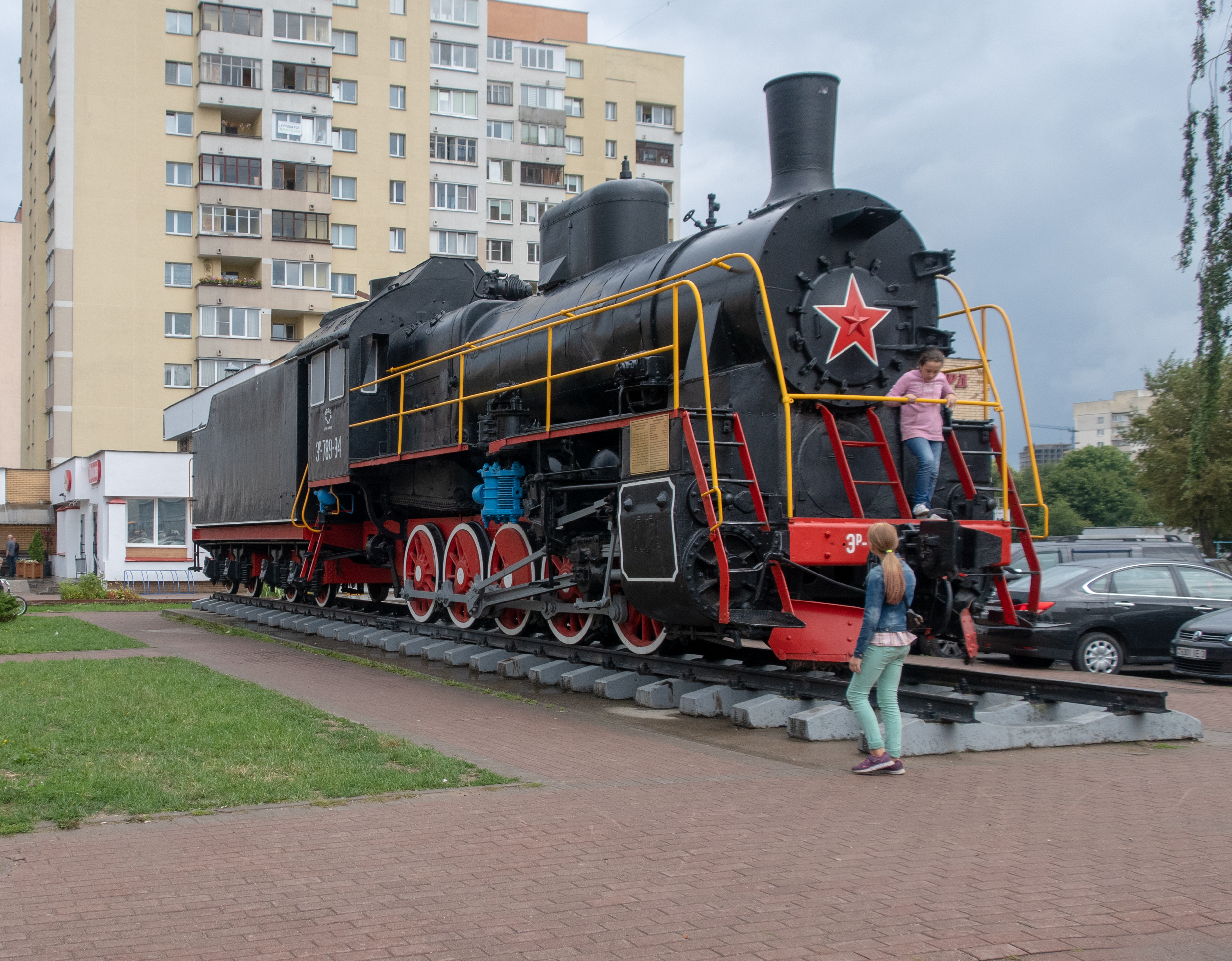 Er steam locotomive in Minsk, Belarus serving as a monument